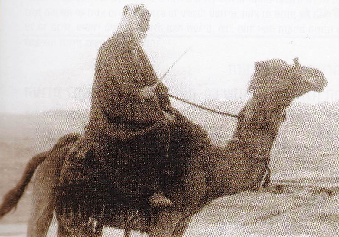 Shimon Peres as the leader of the First Cross Negev Journey 1945